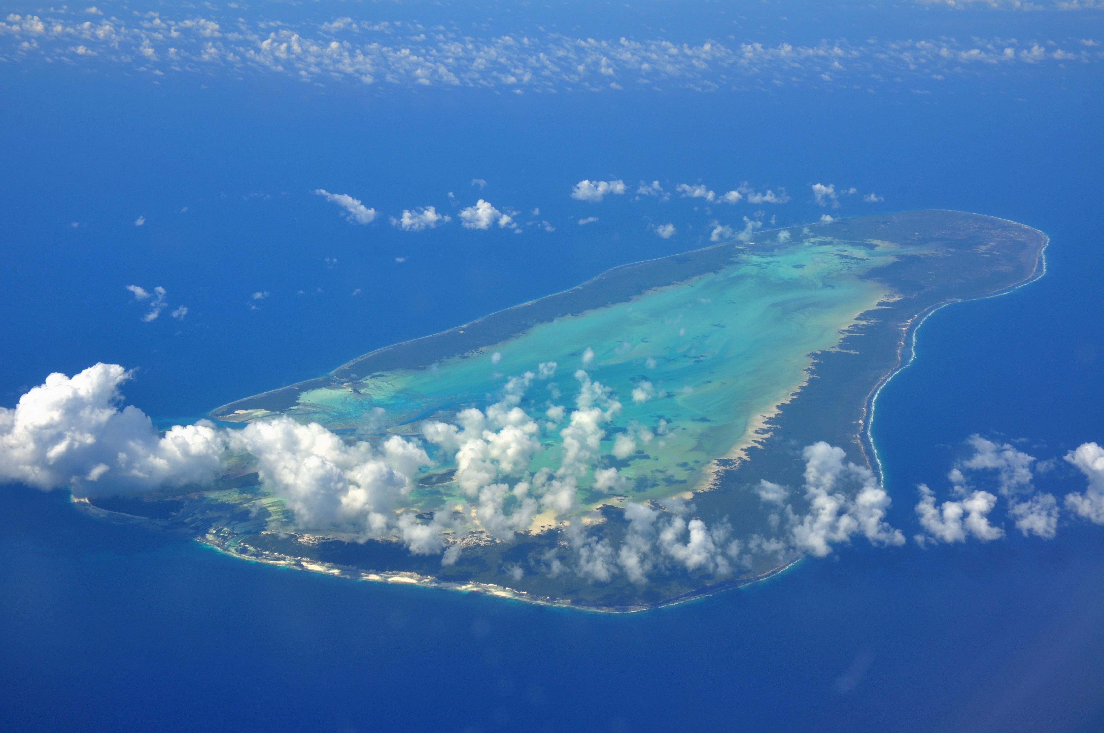 The Aldabra Islands form the largest lagoon in the Indian Ocean. The length is 34 km and the width is 14.5 km. The islands are a UN world heritage and not inhabited.